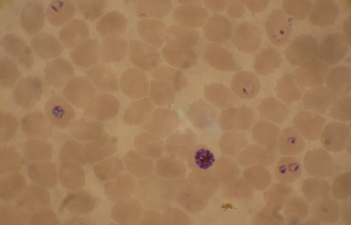 Bloodsmear of a P.falciparum culture (K1 strain). Ring stages, Schizont in the lower center, Trophozoite on the left.